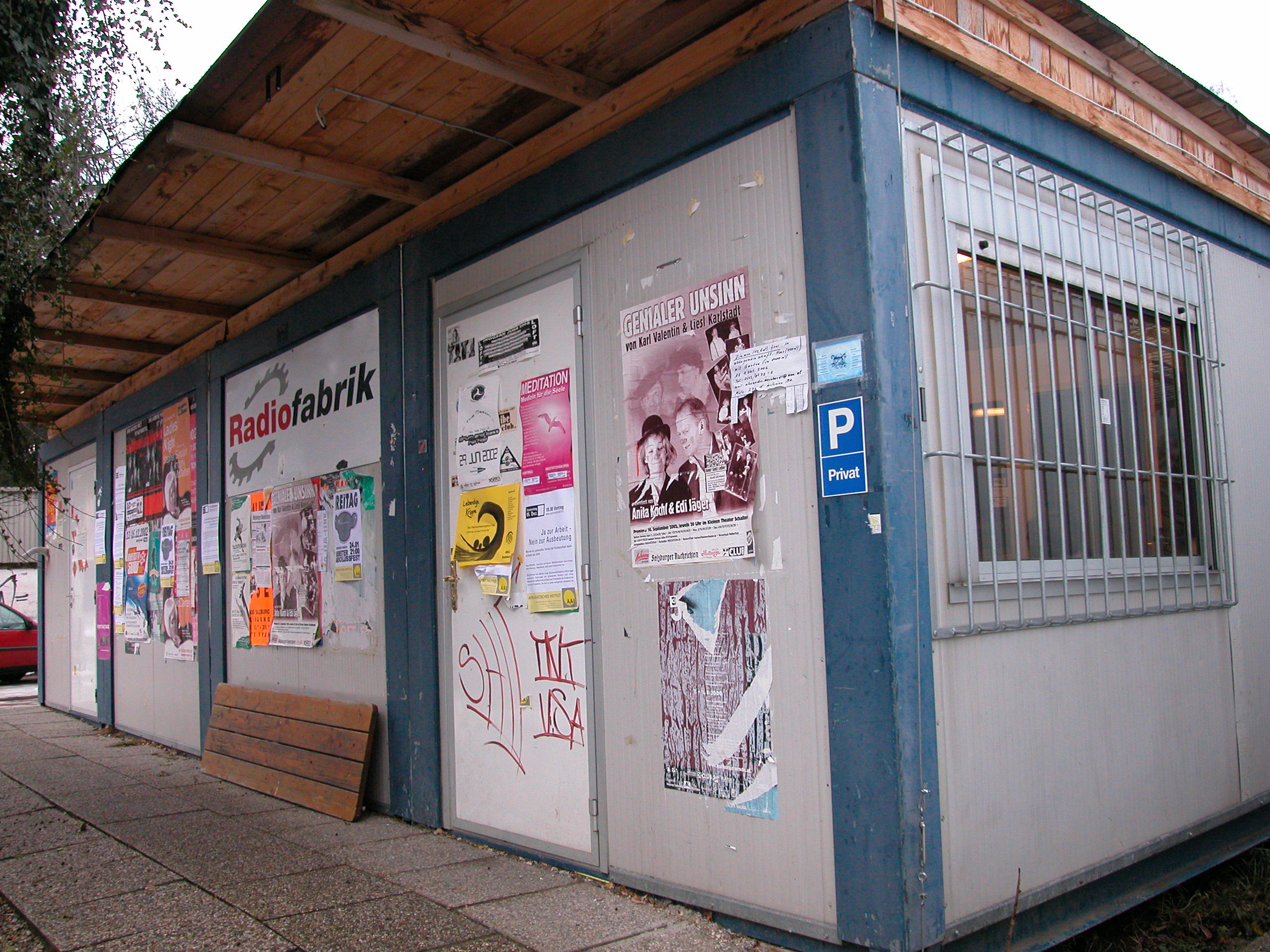 Container-Studio of Radiofabrik 107,5 until 2005